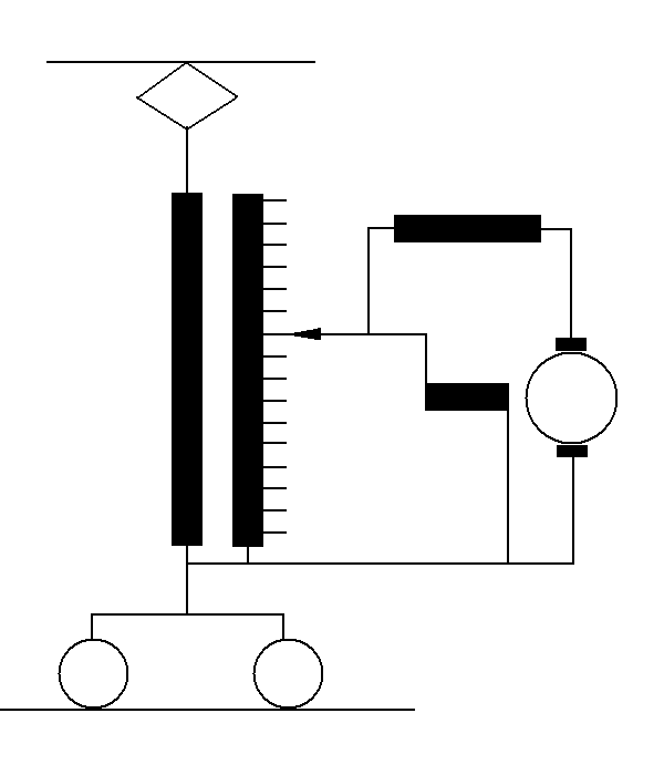 Regenerative brake in arrangement Behn-Eschenburg. Drawing based on Sommer,Senn:Entwicklung und Nutzen der elektrischen Rekuperationsbremse bei den SBB, Schweizer Eisenbahn-Revue 6/1996